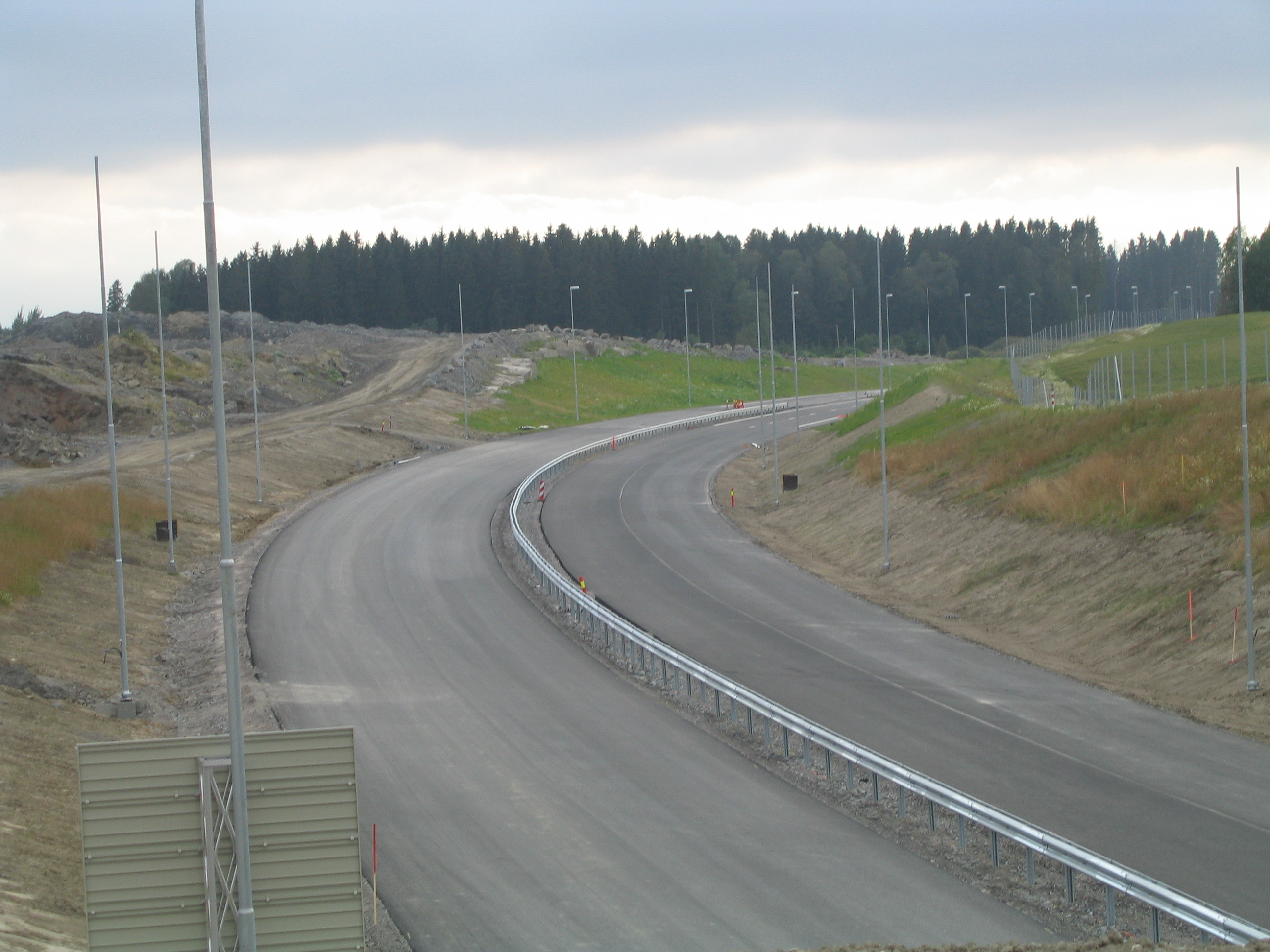 New strech of E18 under construction east of Askim in Norway. View towards west.